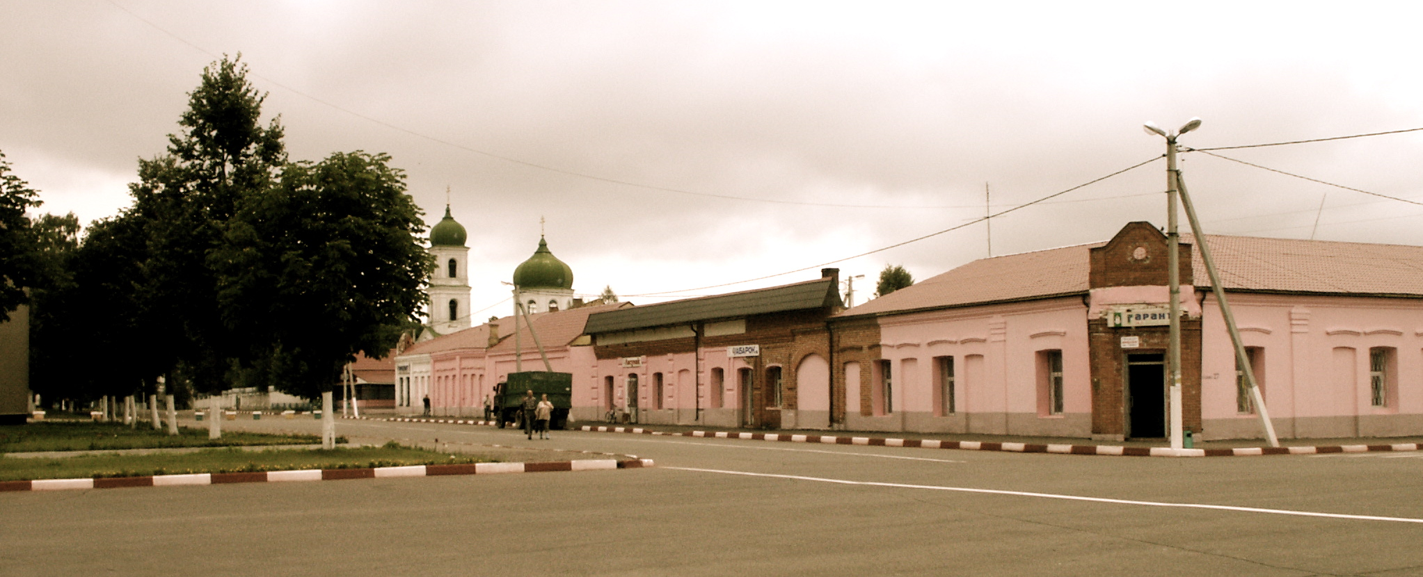 Mstislavl shopping arcade (XIX century)